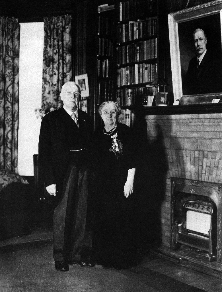 Alexander and Mattie Rutherford in the library of Rutherford House on their fiftieth wedding anniversary